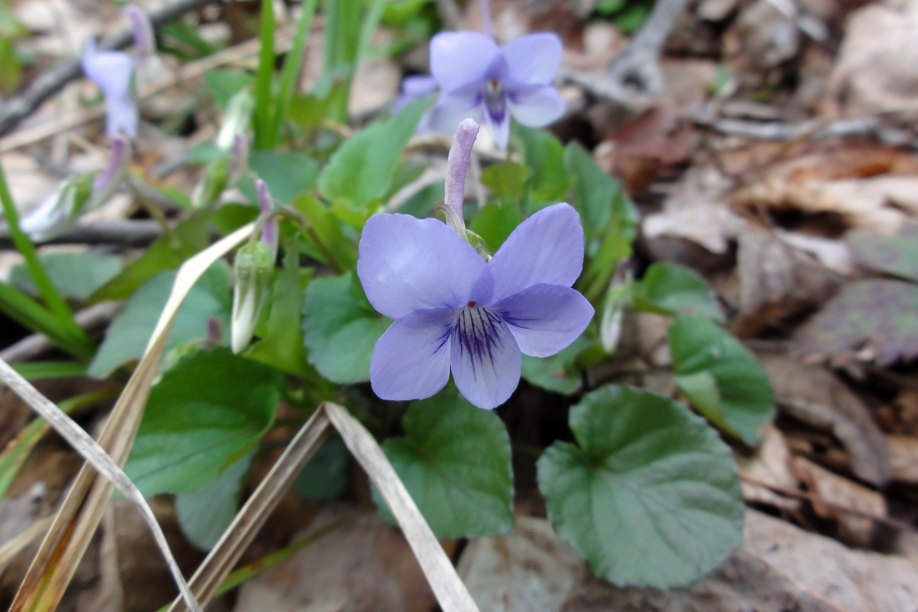 Viola rostrata - spurred violet at Skaneateles Conservation Area, Onondaga County, NY, USA